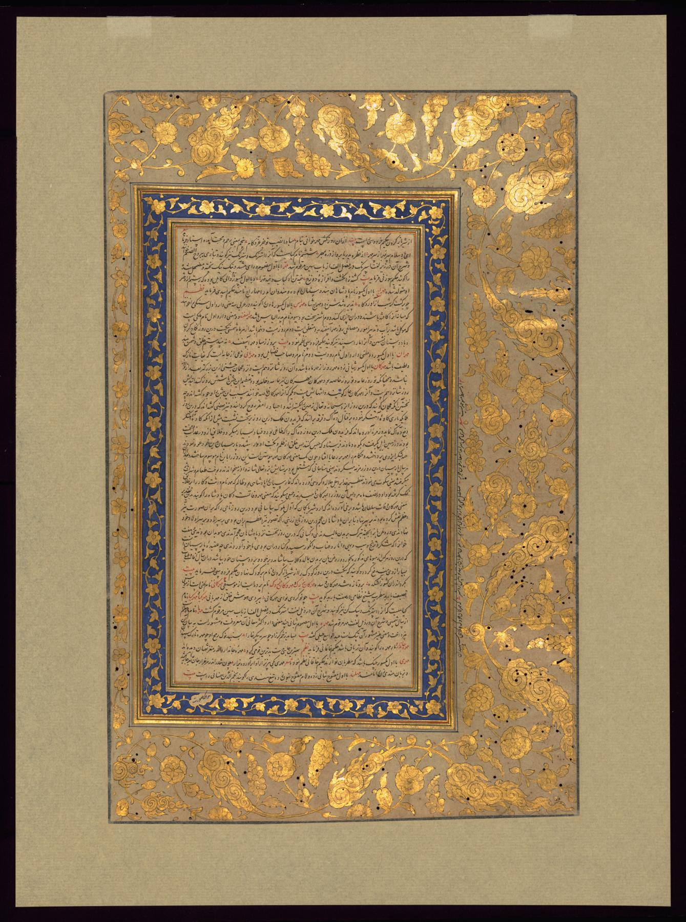 This illuminated text page from Walters manuscript W.684 comes from Farhang-i Jahangiri (a Persian language dictionary) by Jamal al-Din Husayn Inju Shirazi (died 1035 AH/AD 1625-1626).